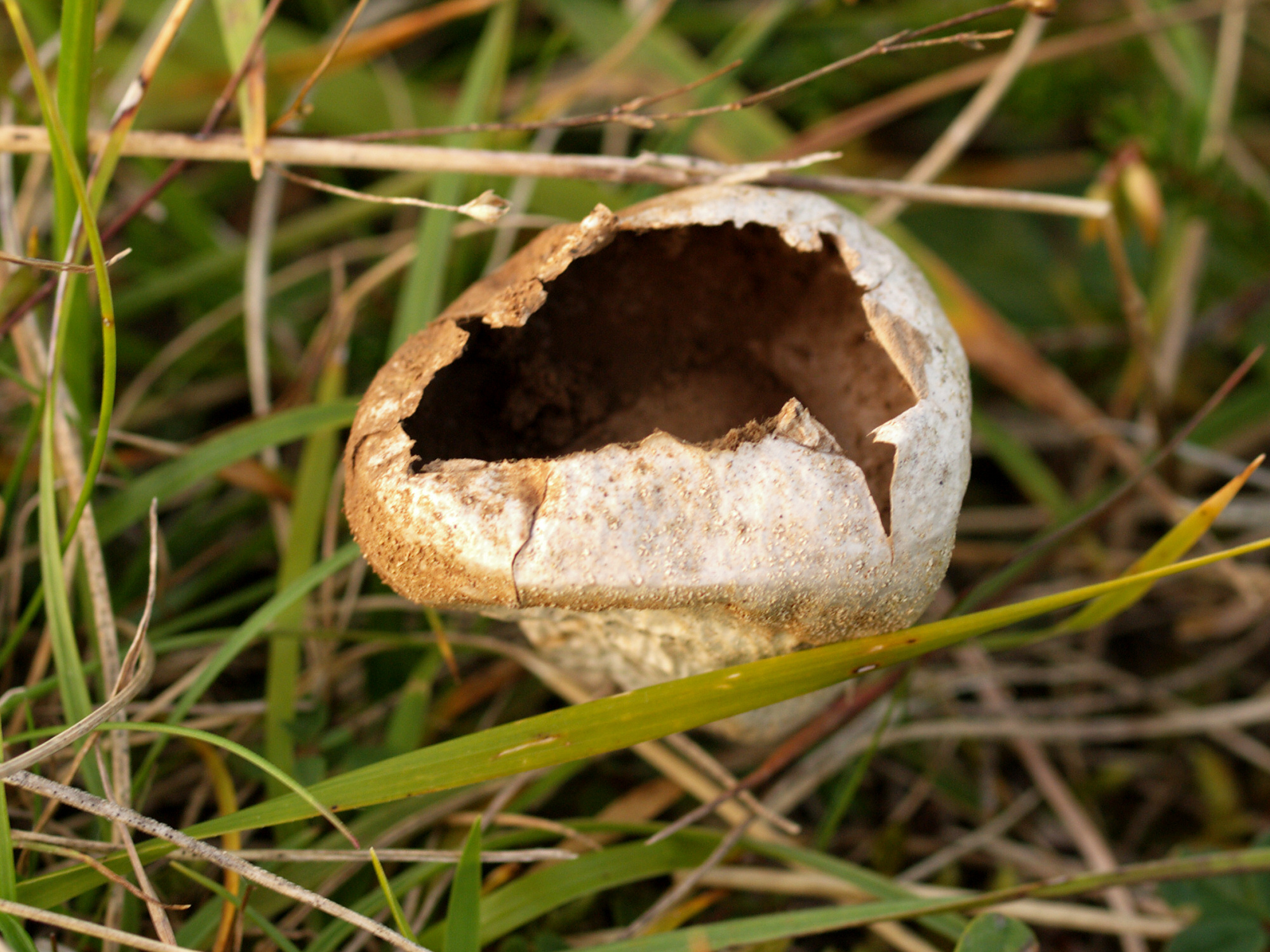 Meadow Puffball (Lycoperdon pratense)